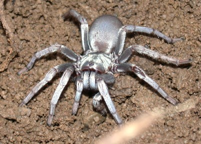 Mygalomorph spider in the Family Nemesiidae, Calisoga longitarsus. Colors of members of the same species can be quite variable.